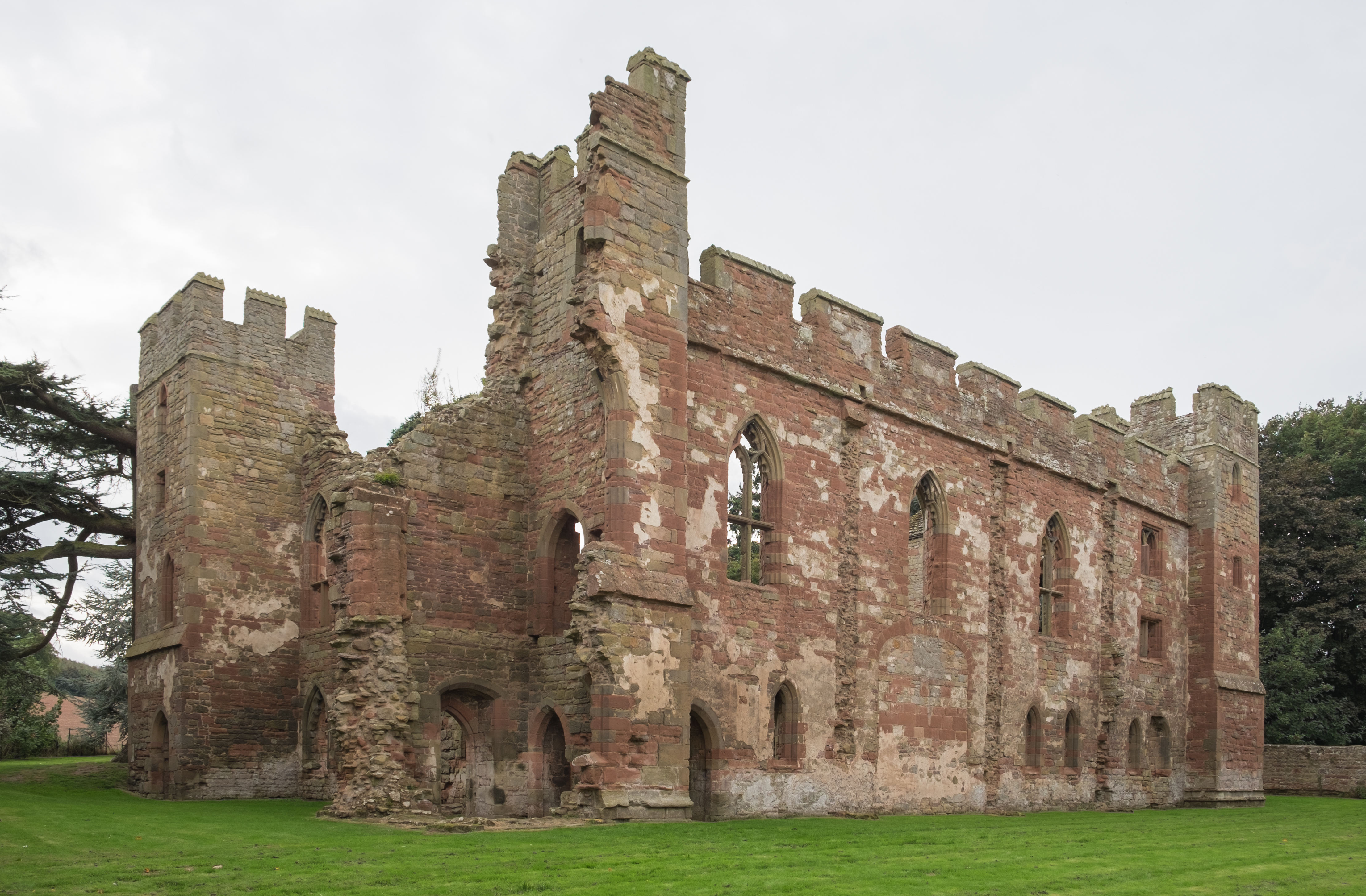 Acton Burnell Castle, Shropshire. The ruins of a fortified manor house built 1284-5 for Robert Burnell. This is a Grade I Listed Building in England.